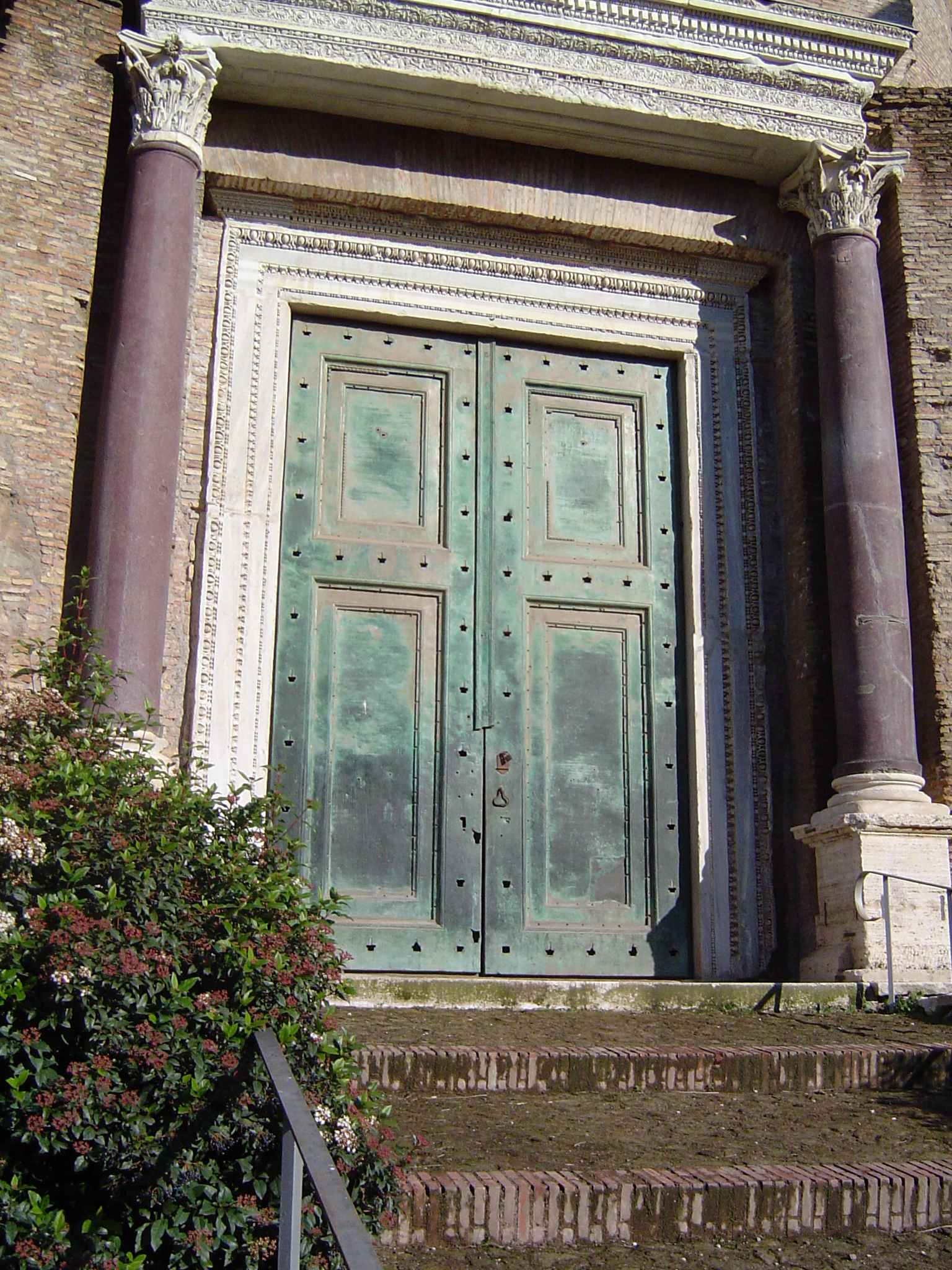 The portal of the so-called Temple of Romulus in Rome, belonging to the Forums of Rome (likely, a room formerly belonging to the palace of the urban praetor). Its bronze door date back to the late imperial period.